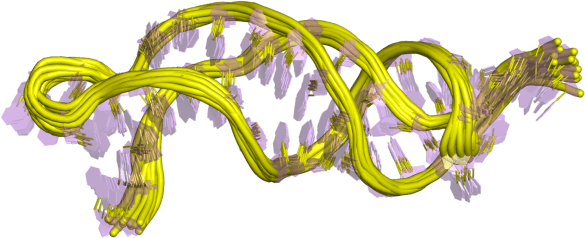 Cartoon representation of the molecular structure of protein registered with 1ymo code.